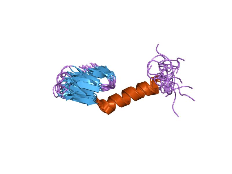 Cartoon representation of the molecular structure of protein registered with 2leu code.